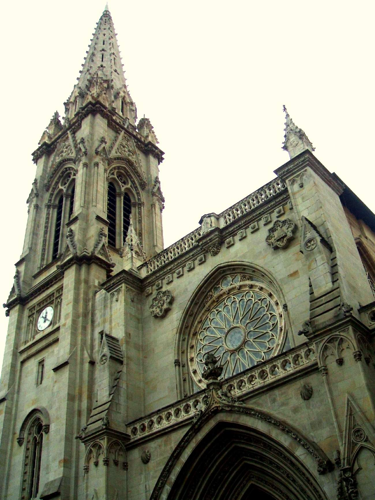 Catedral de Santiago de Bilbao, España